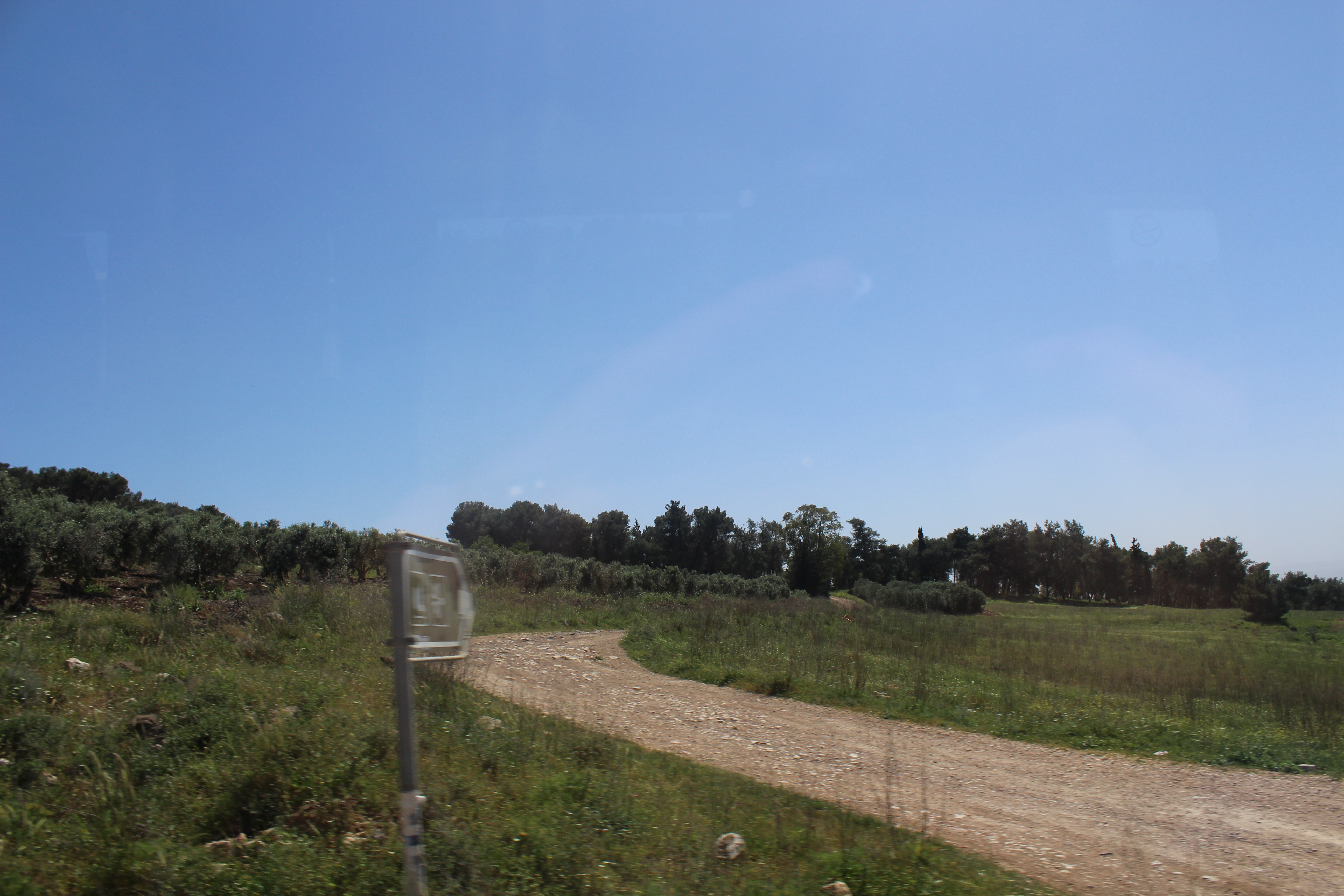 Givat HaMore, near Afula, Israel This image was taken as part of the Elef Millim project trip to Afula Ilit, in the town of Afula in the Jezreel Valley, which was held on Friday, 29th March 2013. To view all images uploaded as part of the Elef Millim Project